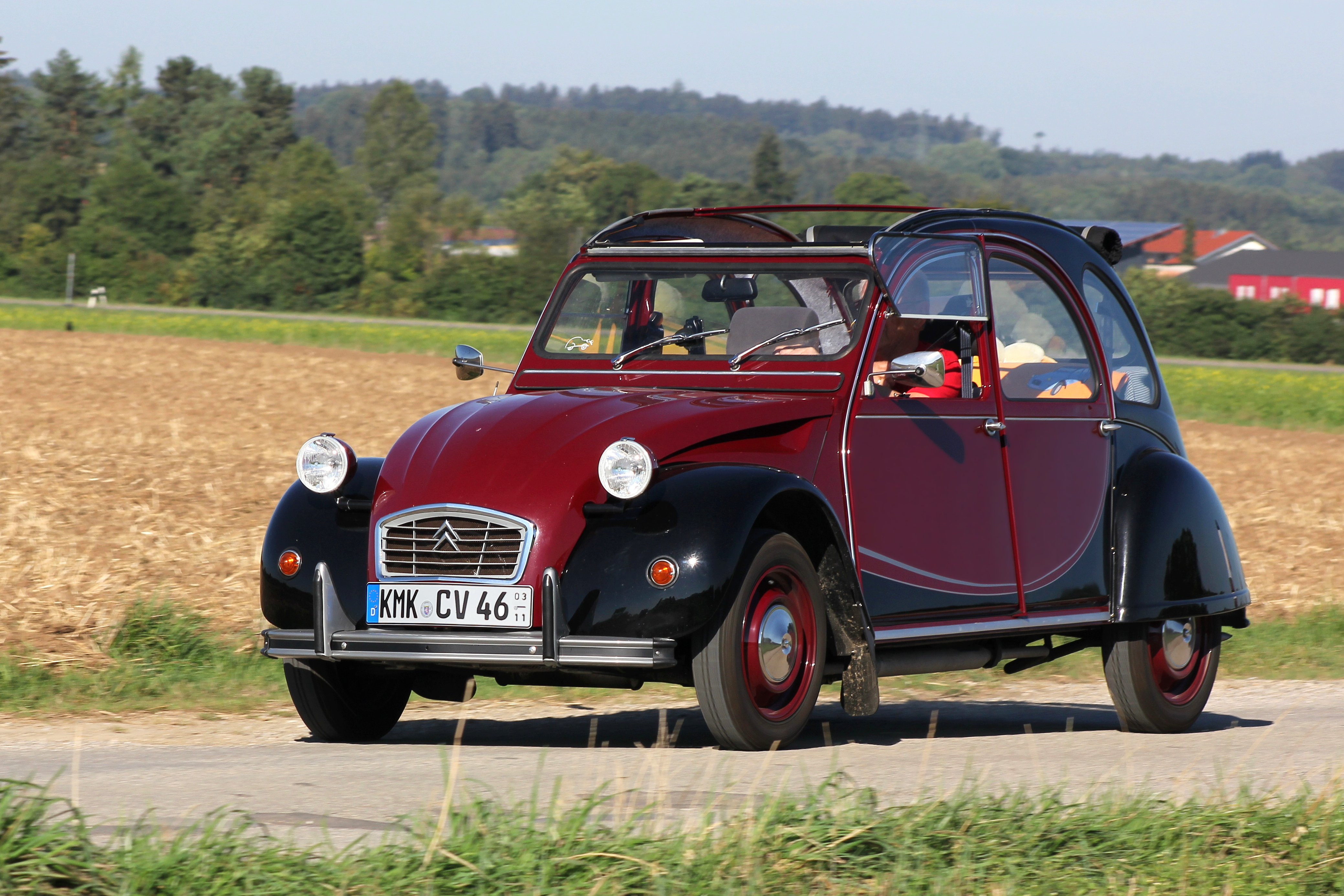 Citroën 2CV "Charleston", built from 1980 to 1990, photographed in front of Bad Wörishofen